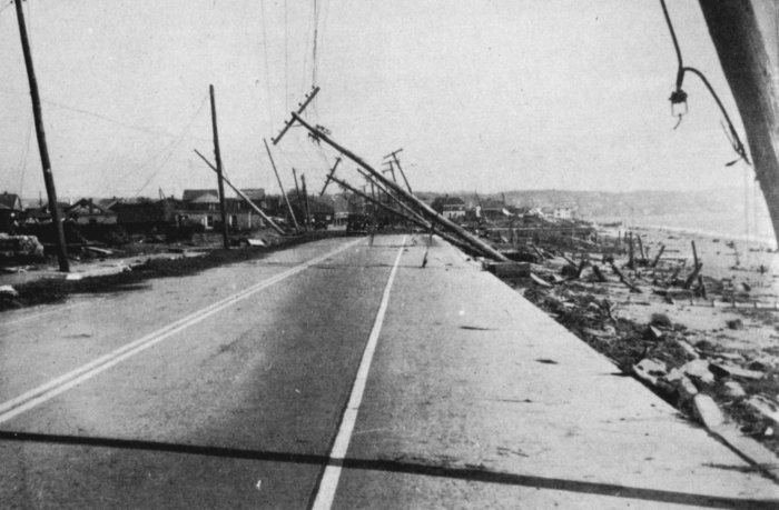 Island Park was destroyed by a breaker with a reported height of 30 to 40 feet. The New England Hurricane of 1938 traveled 600 miles in 12 hours, surprising southern New England and causing widespread destruction. In: The New England Hurricane, Federal Writers' Project of WPA, 1938.